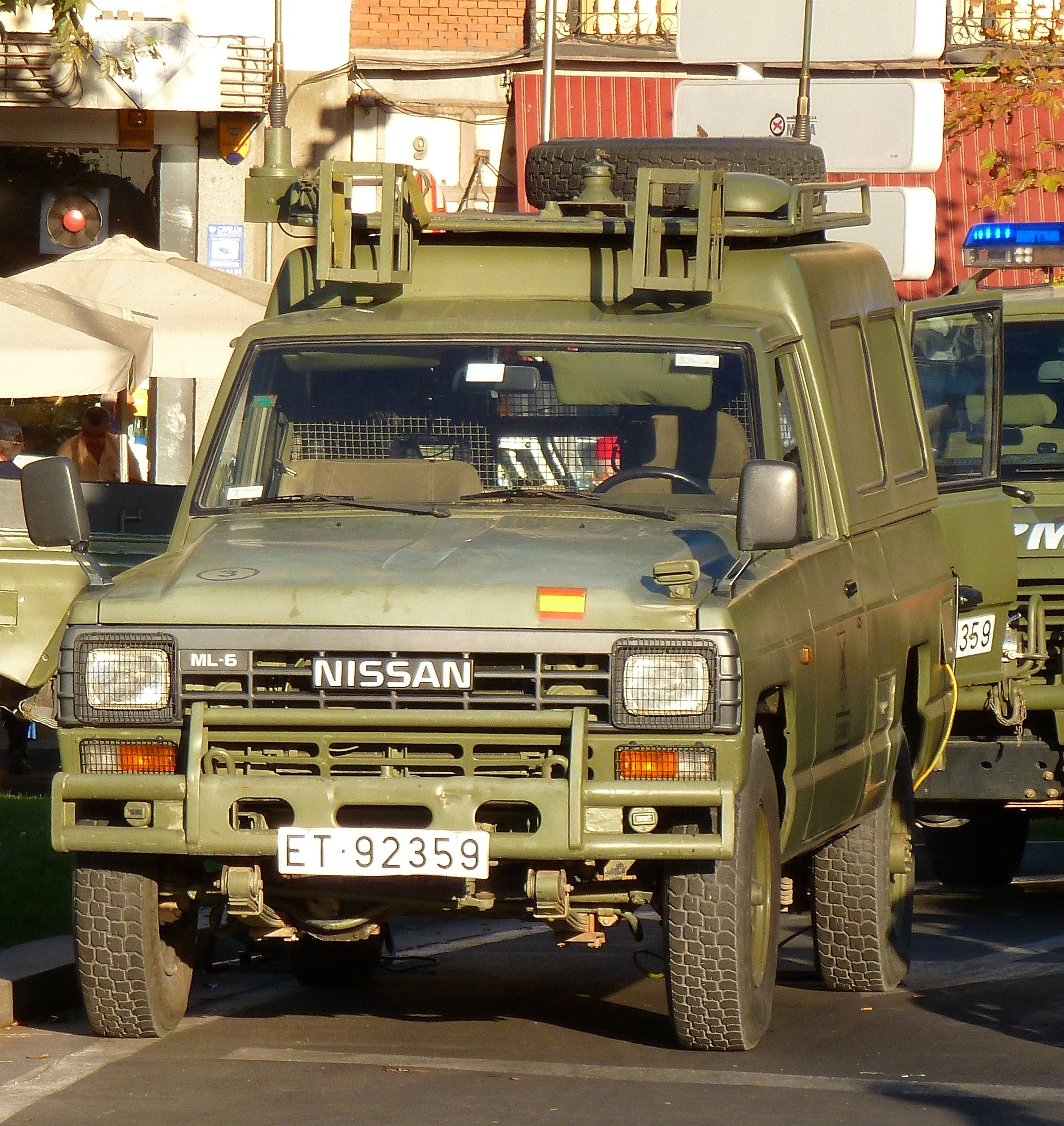 Nissan Patrol ML-6 of the Spanish Army.